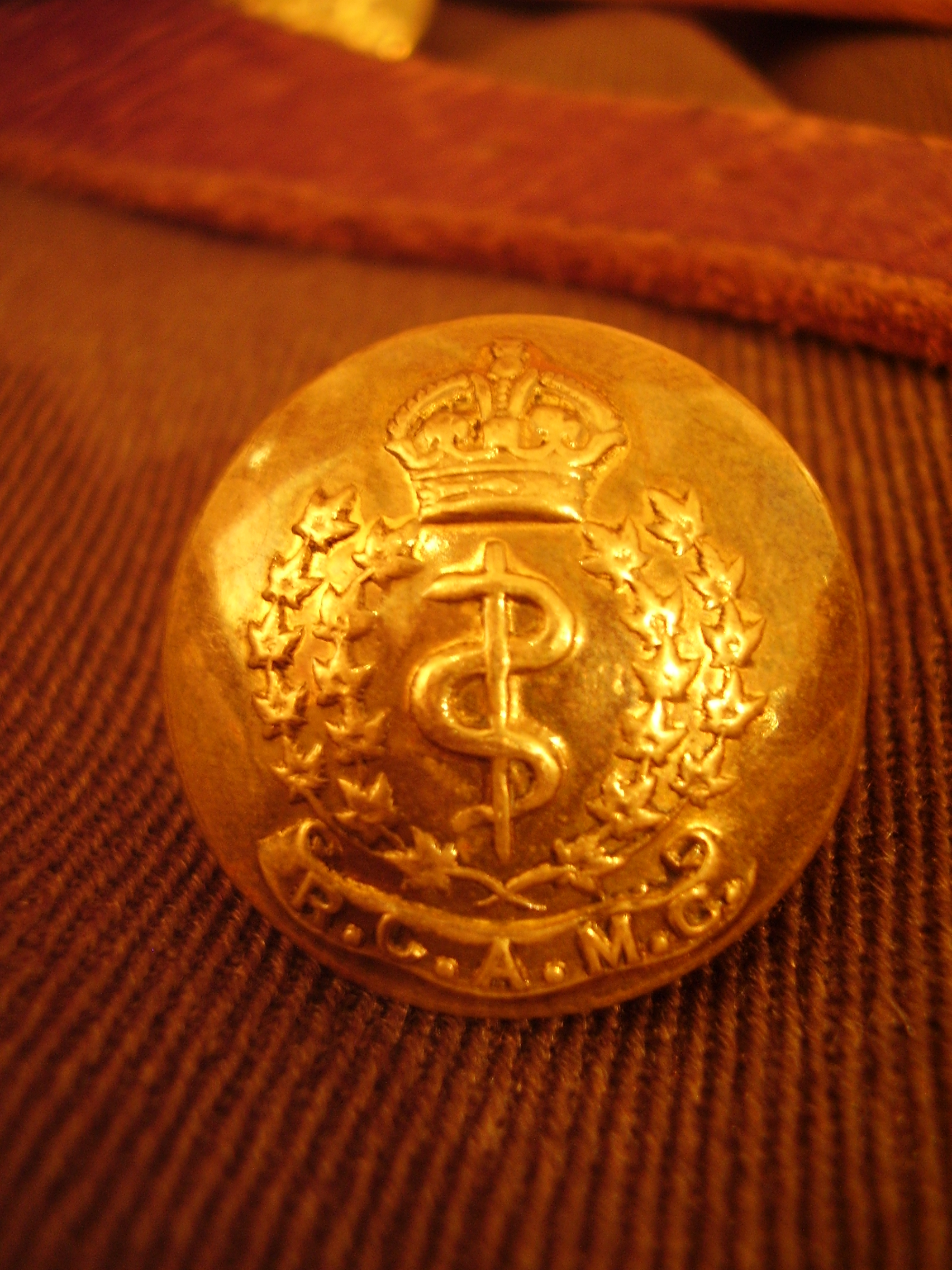 WWI-era brass uniform button (in situ; tunic, front/main buttons) R.C.A.M.C. (Royal Canadian Army Medical Corps). John McCrae House (museum), Guelph, Ontario, Canada. 2nd of 2 shots, this one is slightly closer in, but not quite as sharply focussed.